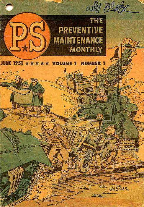 Cover, U.S. Army's PS, The Preventive Maintenance Monthly (June 1951), cover art by Will Eisner. US government publication.